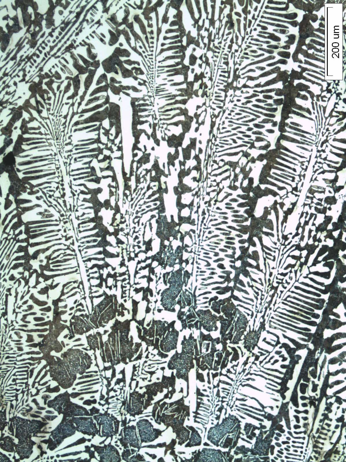 The microstructure of cast iron with an increase of 100